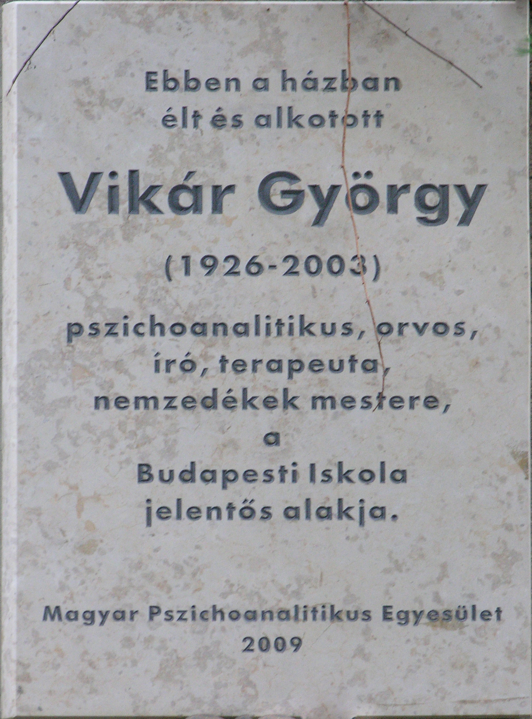 Commemorative plaque of György Vikár in Budapest District II, Rhédey utca No 5